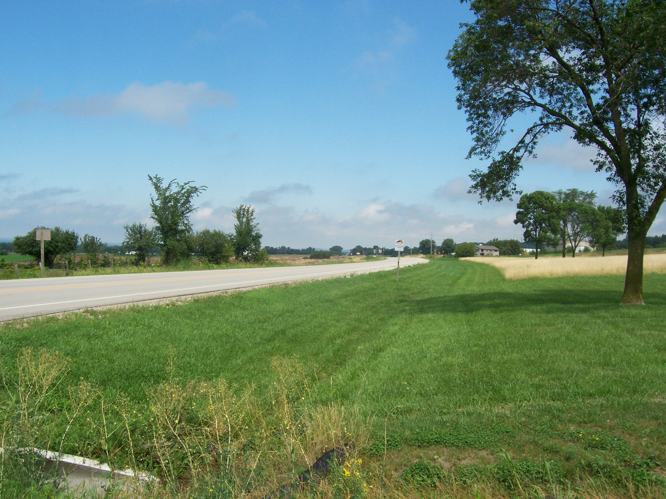 The southern terminus of Wisconsin State Highway 55 between Quinney and Brothertown, Calumet County, Wisconsin. I took this image myself on August 6, 2006 (date on camera was set wrong). At 55's intersection with U.S. Route 151. Category:Images of Wisconsin highways